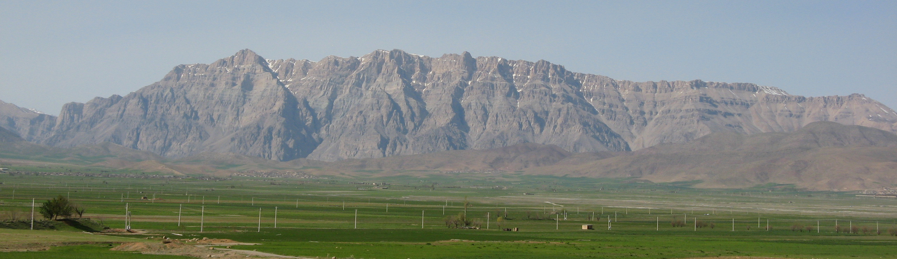 Panaroma of the bakhteyaris Green Mountain.